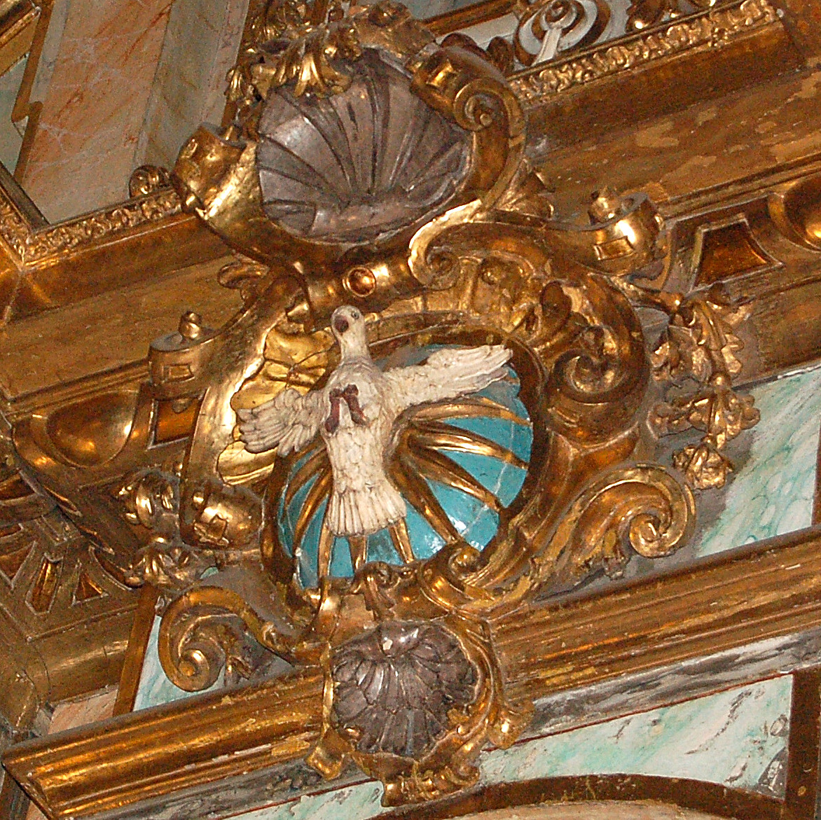 Espírito Santo en forma de pomba na Igrexa de Nosa Señora dos Remedios de Santiago de Compostela